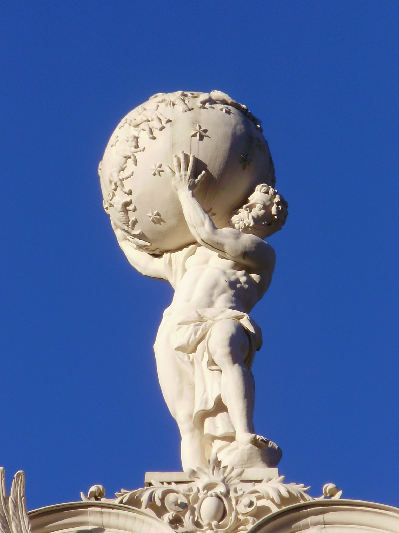 Atlas on the top of Schloss Linderhof.